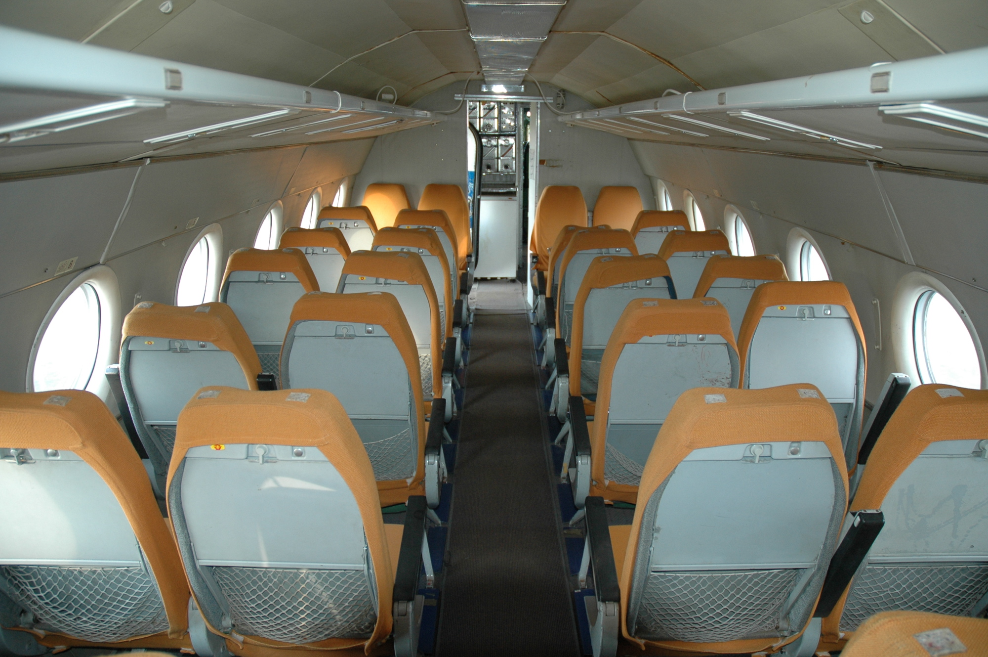 Tupolev Tu-134A passenger cabin (reg. HA-LBE)